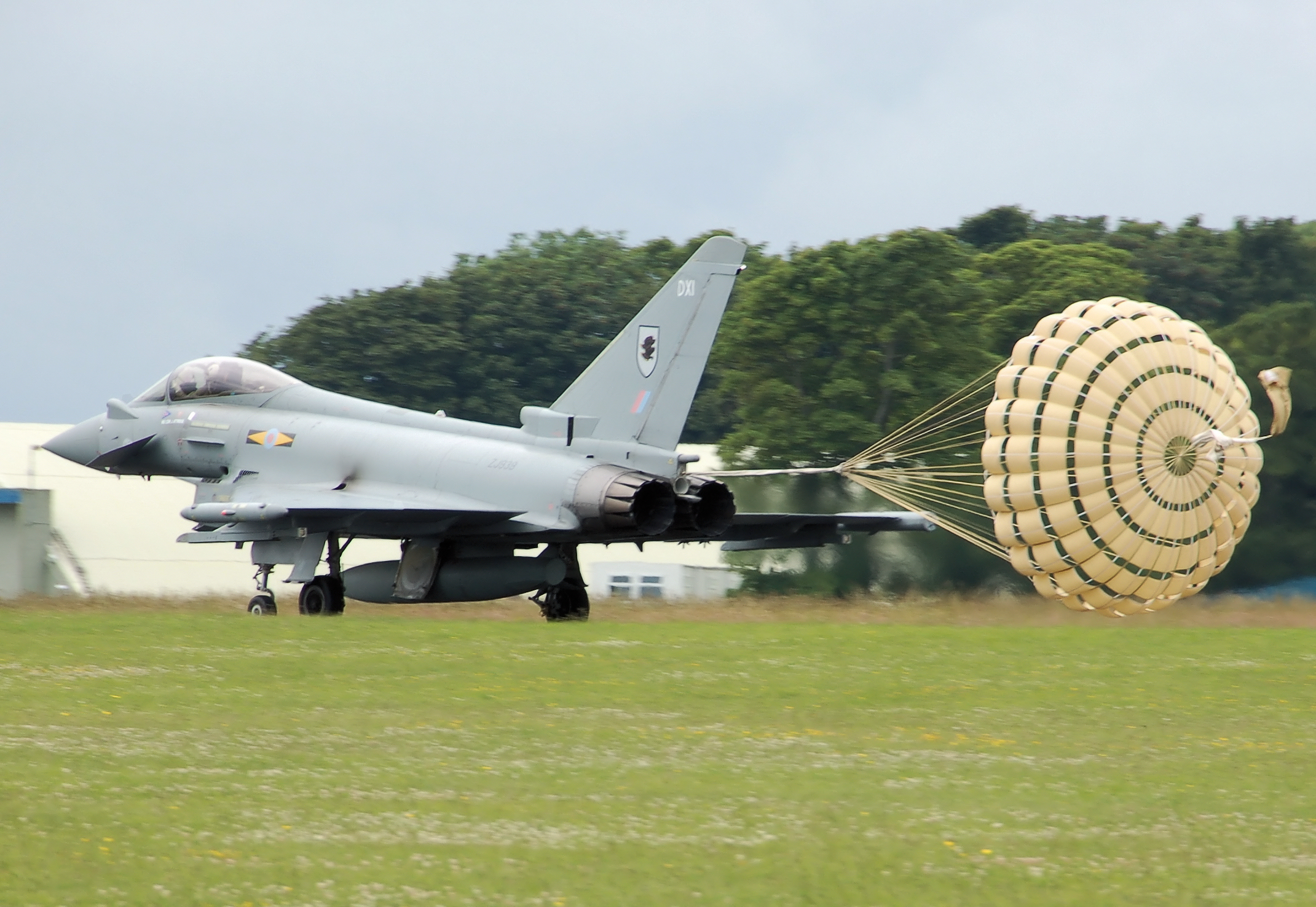 RAF Typhoon FGR4 (code ZJ939) on the landing run with braking parachute deployed, at Kemble Air show, Kemble Airport, Gloucestershire, England, on the 21st June 2009. Photographed by Adrian Pingstone and placed in the public domain.